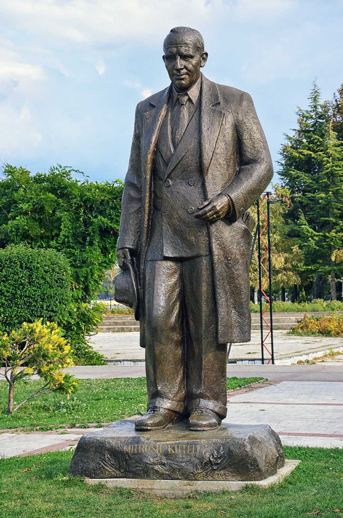 The statue of Mitrush Kuteli on the lakeside promenade of Pogradec, Albania